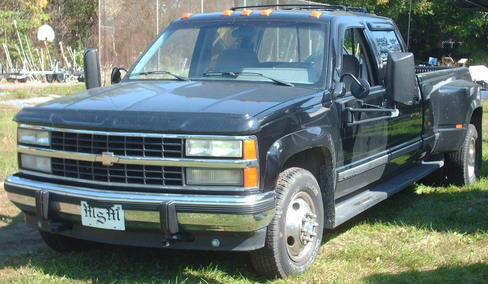 1990-1993 Chevrolet C/K 3500 photographed in Montreal, Quebec, Canada.